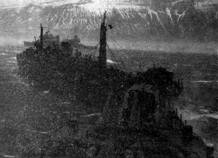 The U.S. Navy heavy cruiser USS Wichita (CA-45) collides with the cargo ship SS West Nohno in Hvalfjörður, Iceland. On 15 January 1942, a powerful storm, with sustained winds of 80 knots (150 km/h; 92 mph) and gusts up to 100 kn (190 km/h; 120 mph), hit Iceland. Wichita was damaged by the storm, including a collision with the freighter SS West Nohno and the British trawler Ebor Wyke. She then ran aground off Hrafneyri Light.